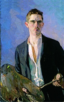 Zelfportrait